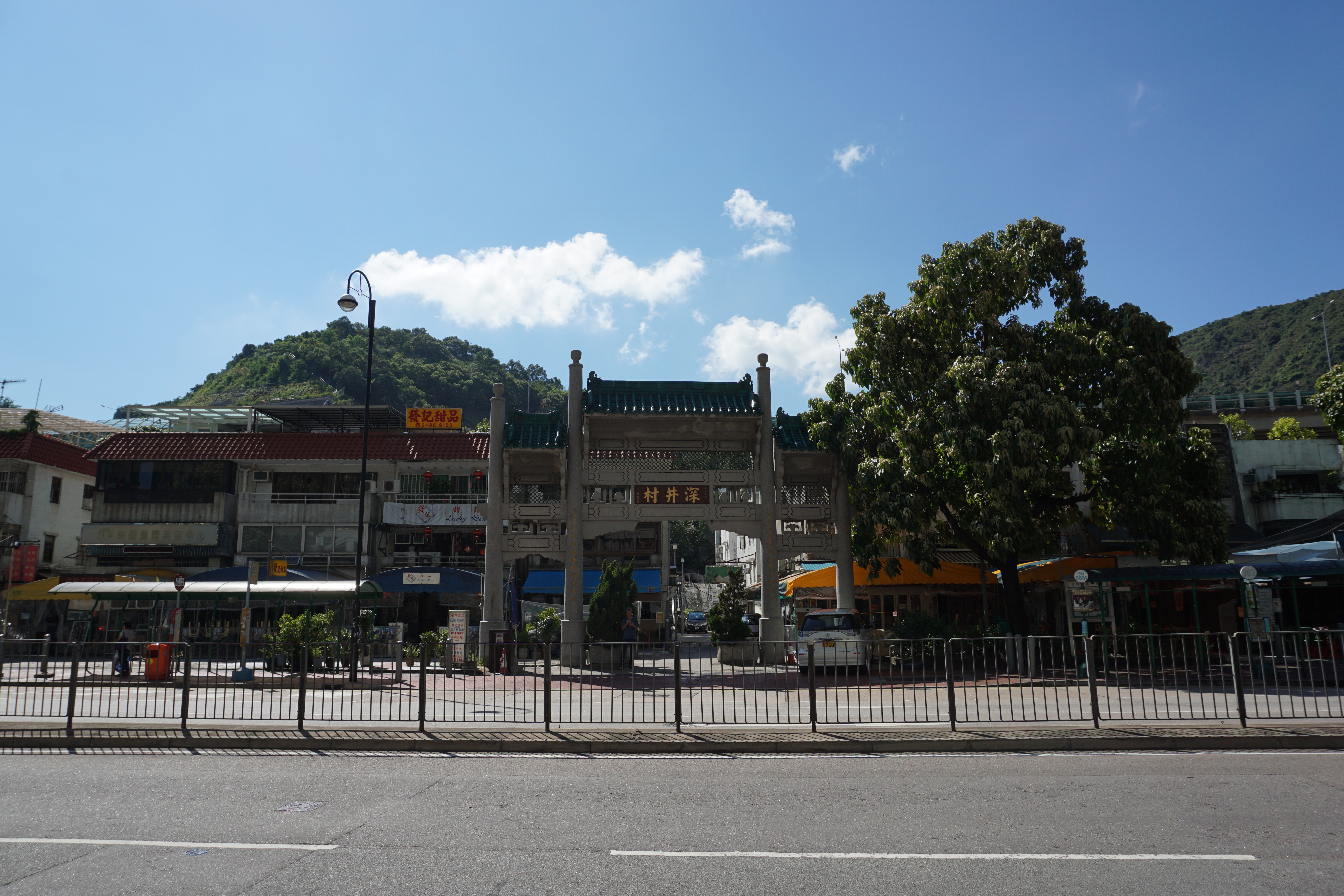 Village in Sham Tseng, Hong Kong.